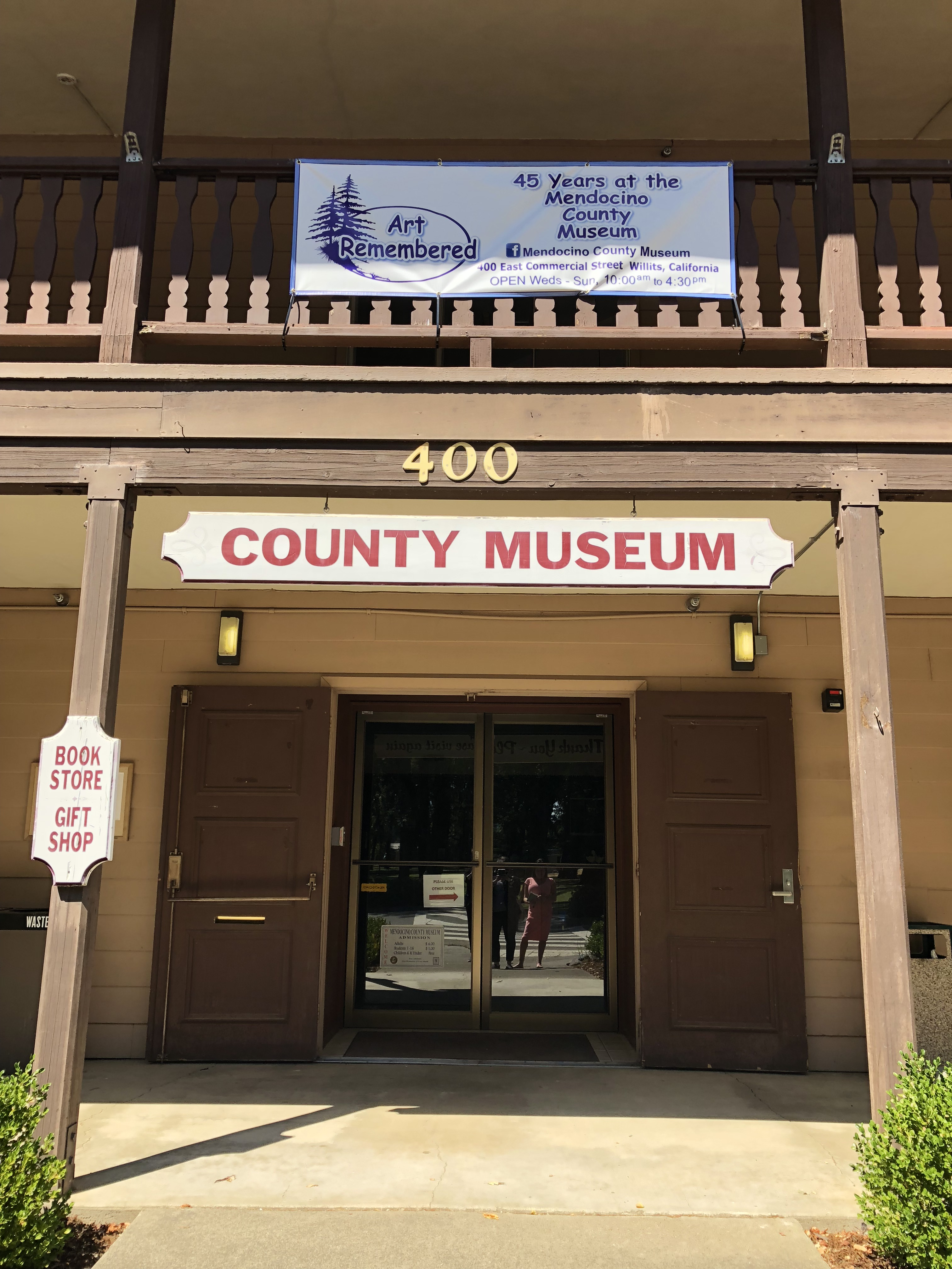 Mendocino County Museum in Willits, California